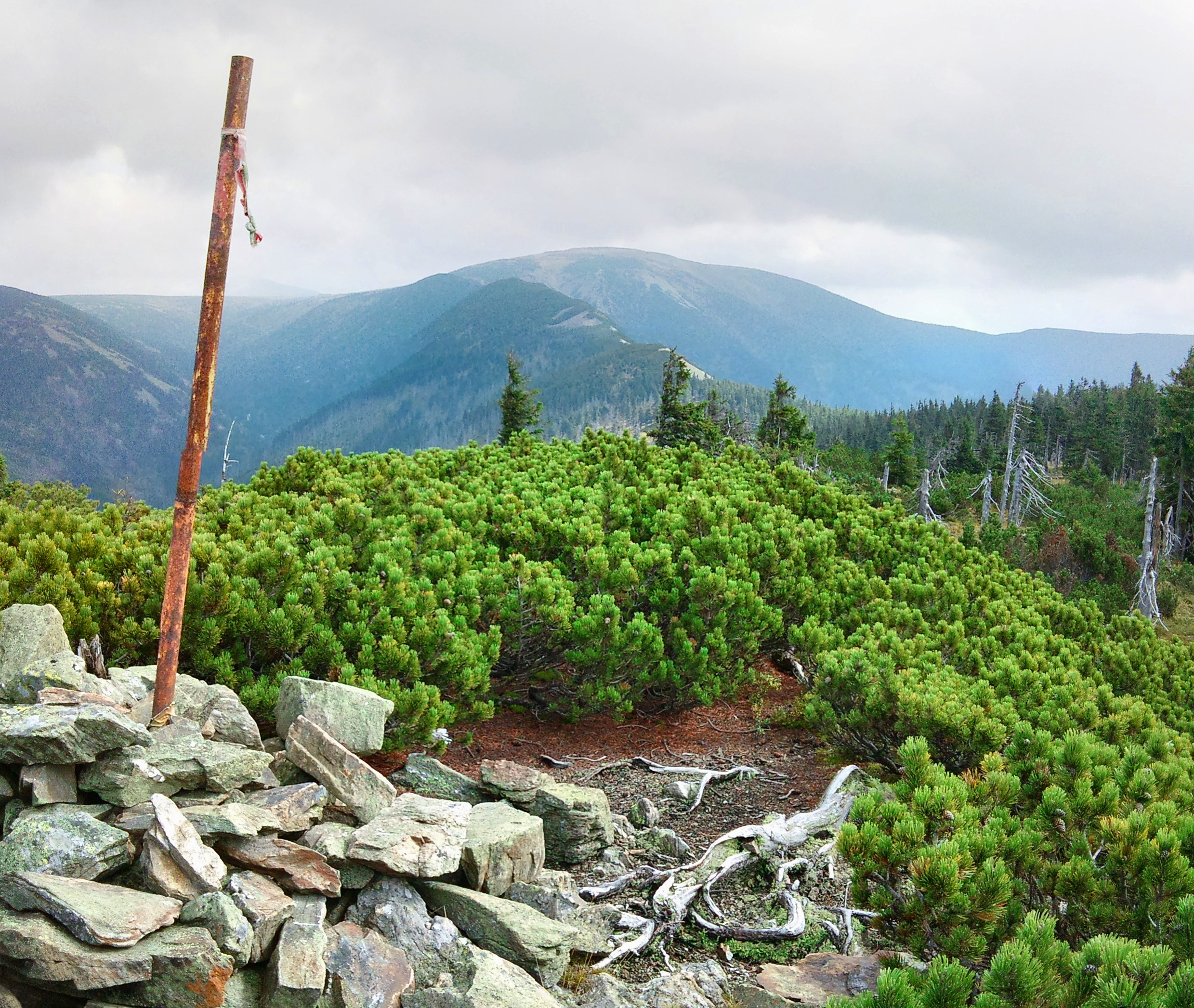 Summit of the Železný vrch in the Krkonoše Mountains.